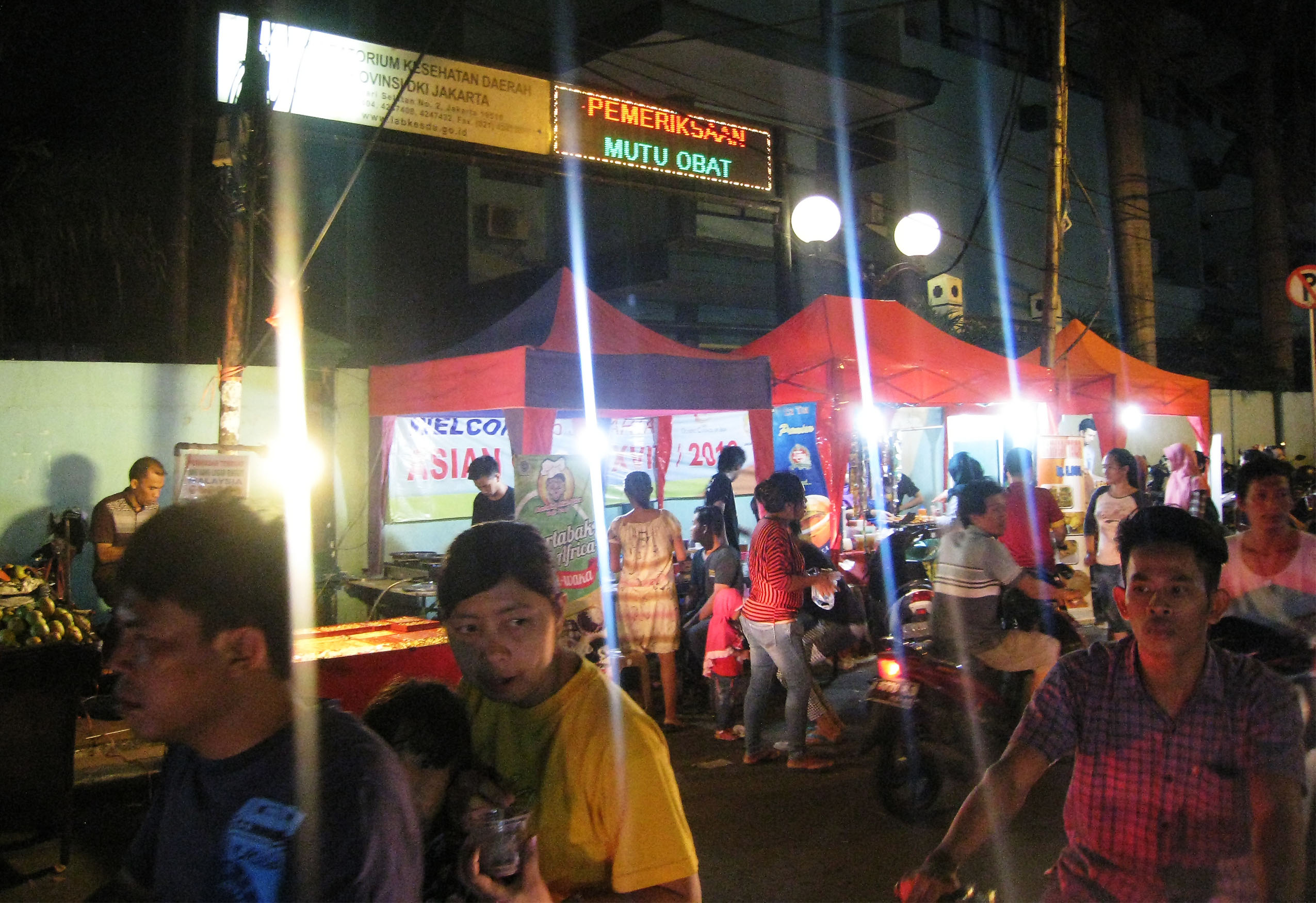 Pasar Malam (night market) every Saturday night at Rawasari, Central Jakarta, Indonesia.